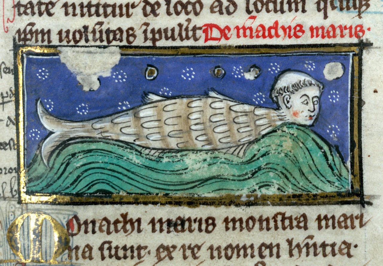 Thomas of Cantimpré, Liber de natura rerum, France ca. 1290